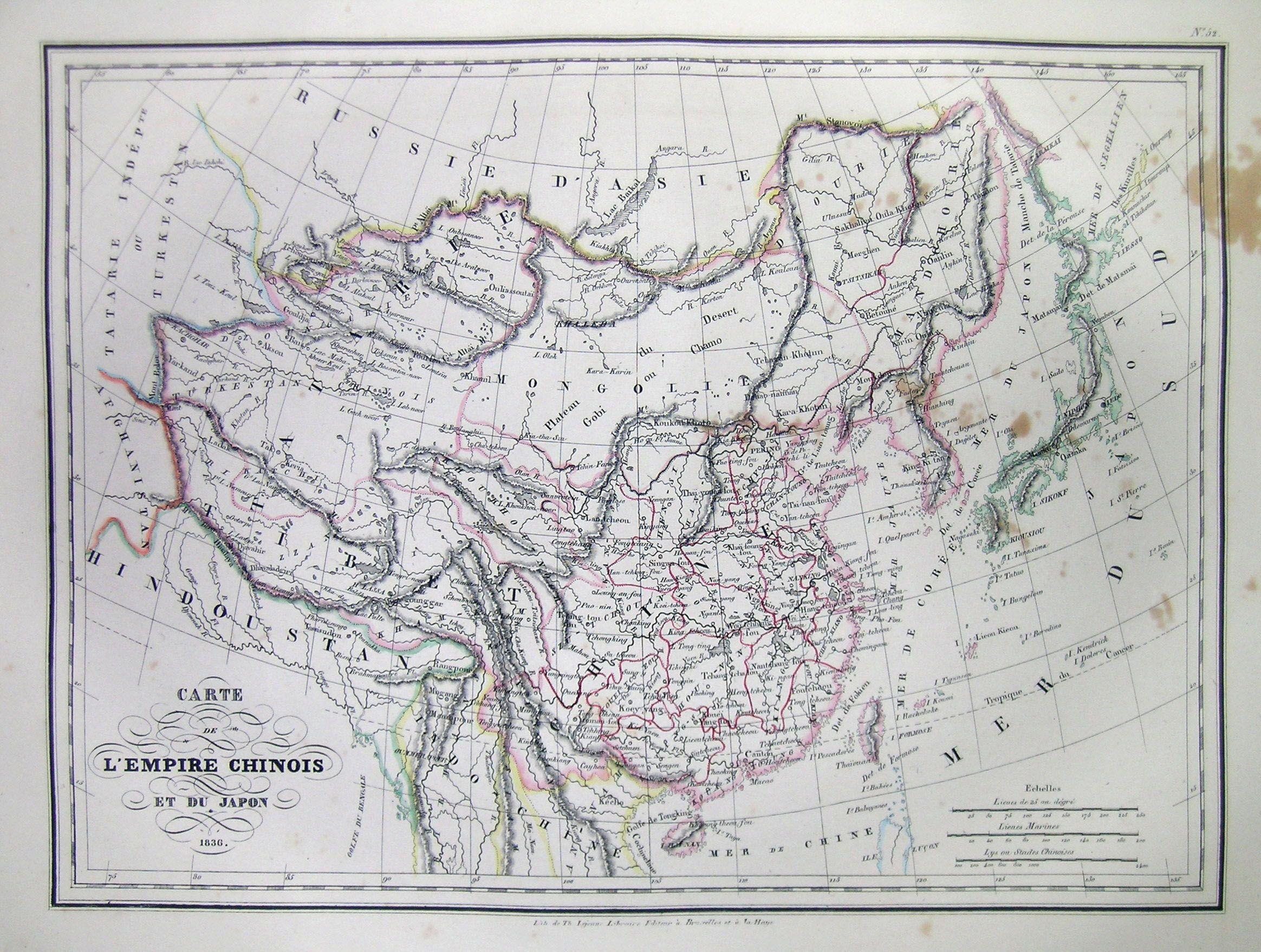 This is a beautiful 1836 Hand colored map of China and Japan. Includes Tartary and the Mongol Empire. All text is in French.